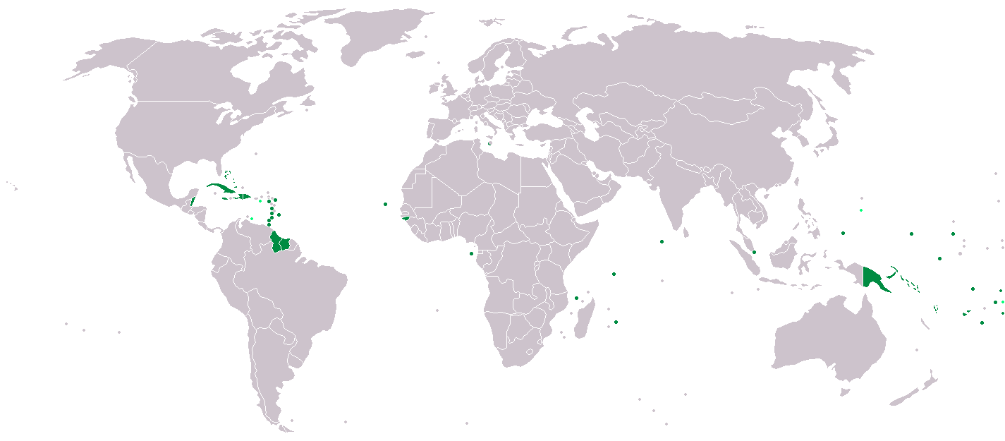 Members (dark green) and observers (light green) of the Alliance of Small Island States, from the AOSIS website.